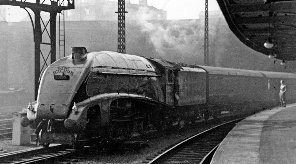 The 'Flying Scotsman' express enters King's Cross at the end of its non-stop run from Edinburgh. View NW, from the separate York Road Up platform used by suburban trains running through to Moorgate; ex-Great Northern ECML. The train is emerging from one of the three bores of the smoky Gas Works Tunnel, above and behind which is Goods Way and the buildings of King's Cross Goods station. The locomotive is Gresley A4 streamlined Pacific No. 60009 'Union of South Africa'.